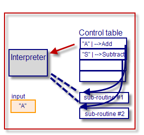 Diagramatic representation of a simple Control Table showing relationship of table, interpreter, subroutines and a single input variable.